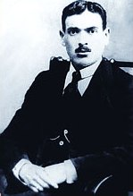 Ahmed Cavad